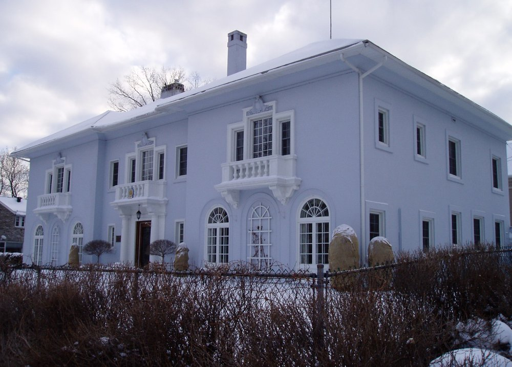 Taken by SimonP in January 2005